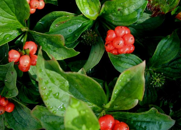 Cornus canadensis: Fruits and leaves.